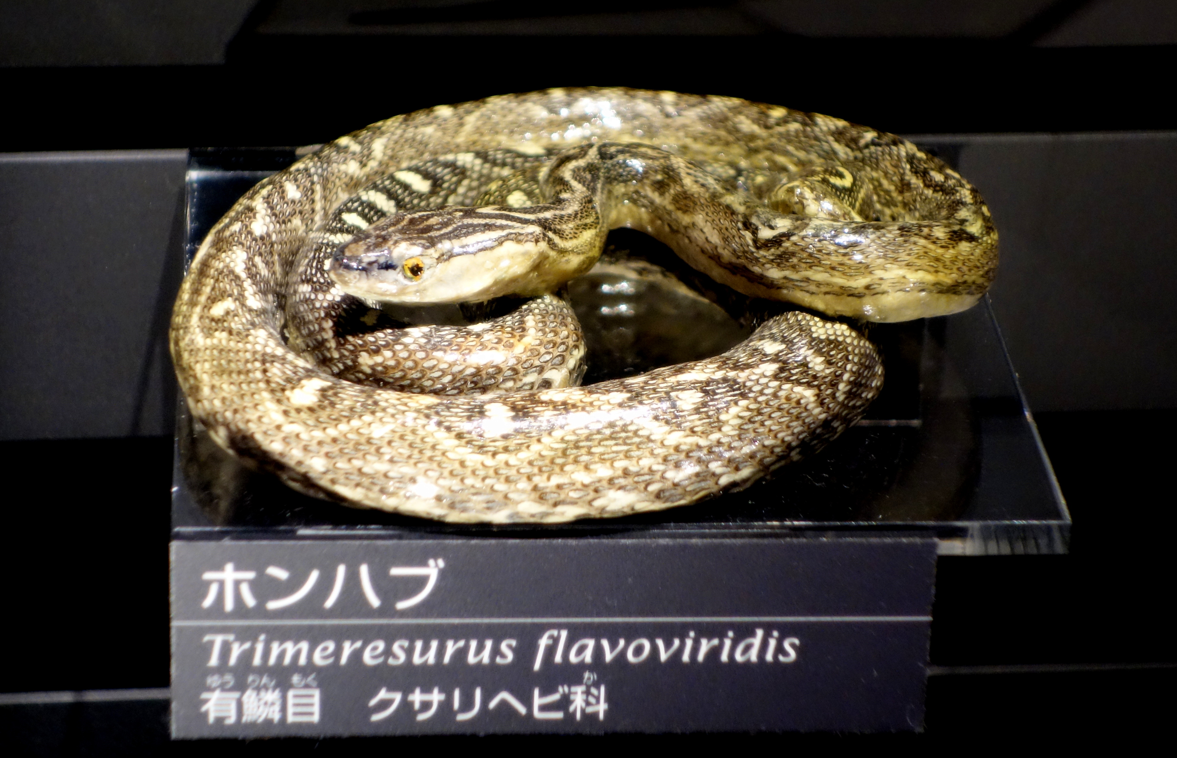 Exhibit in the National Museum of Nature and Science, Tokyo, Japan.